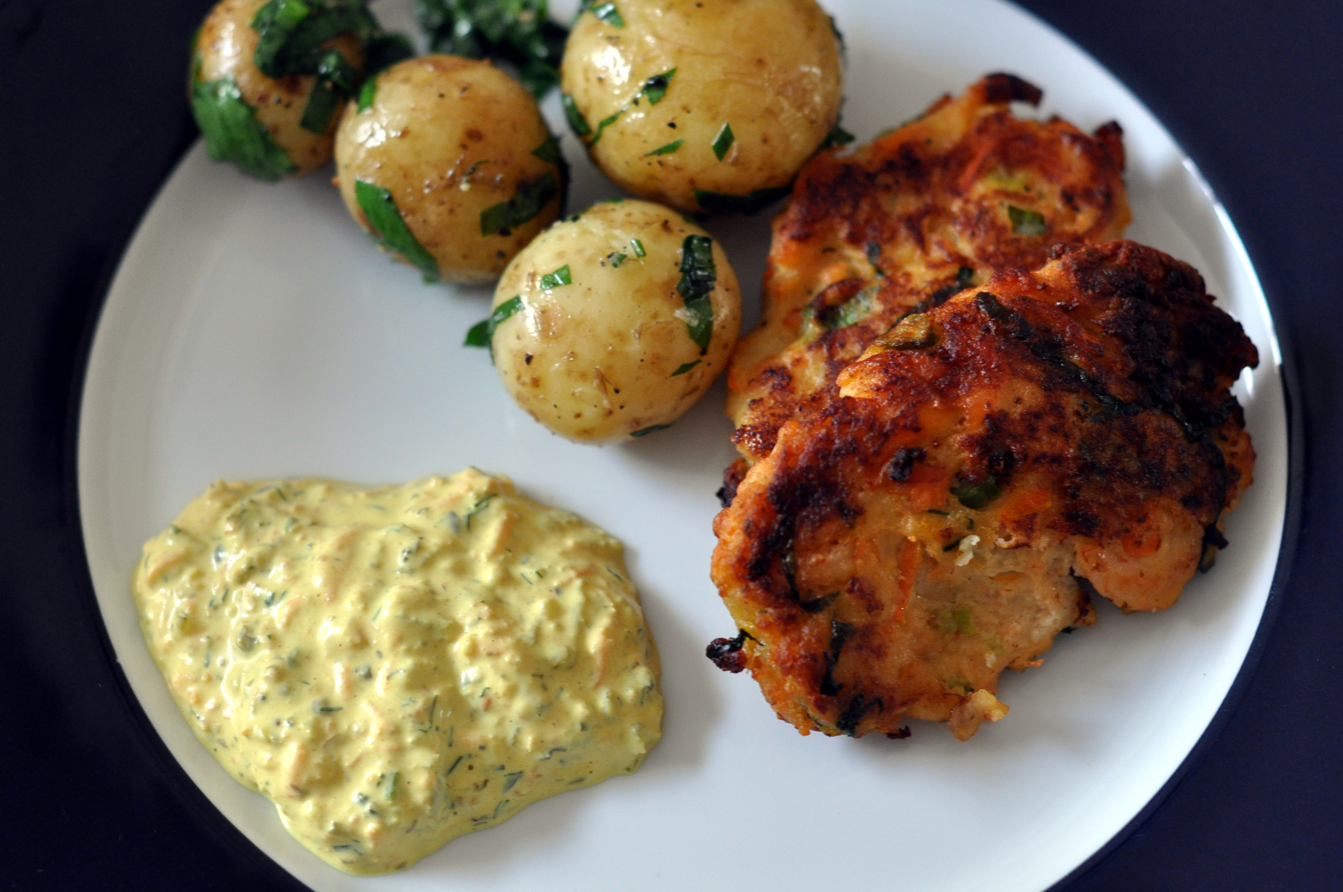 Hjemmelavet remoulade, kartofler med ramsløg og fiskefrikadeller med asparges, laks og rejer (Homemade tartar sauce, potatoes with wild garlic and fish cakes with asparagus, salmon and shrimp)